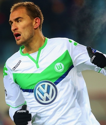 Bas Dost